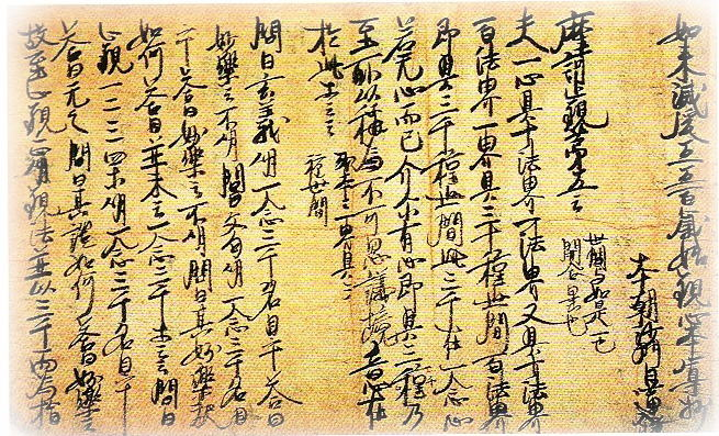 The object of devotion for observing the mind in the fifth five-hundred year period (観心本尊抄, Kanjin no Honzon Shō)